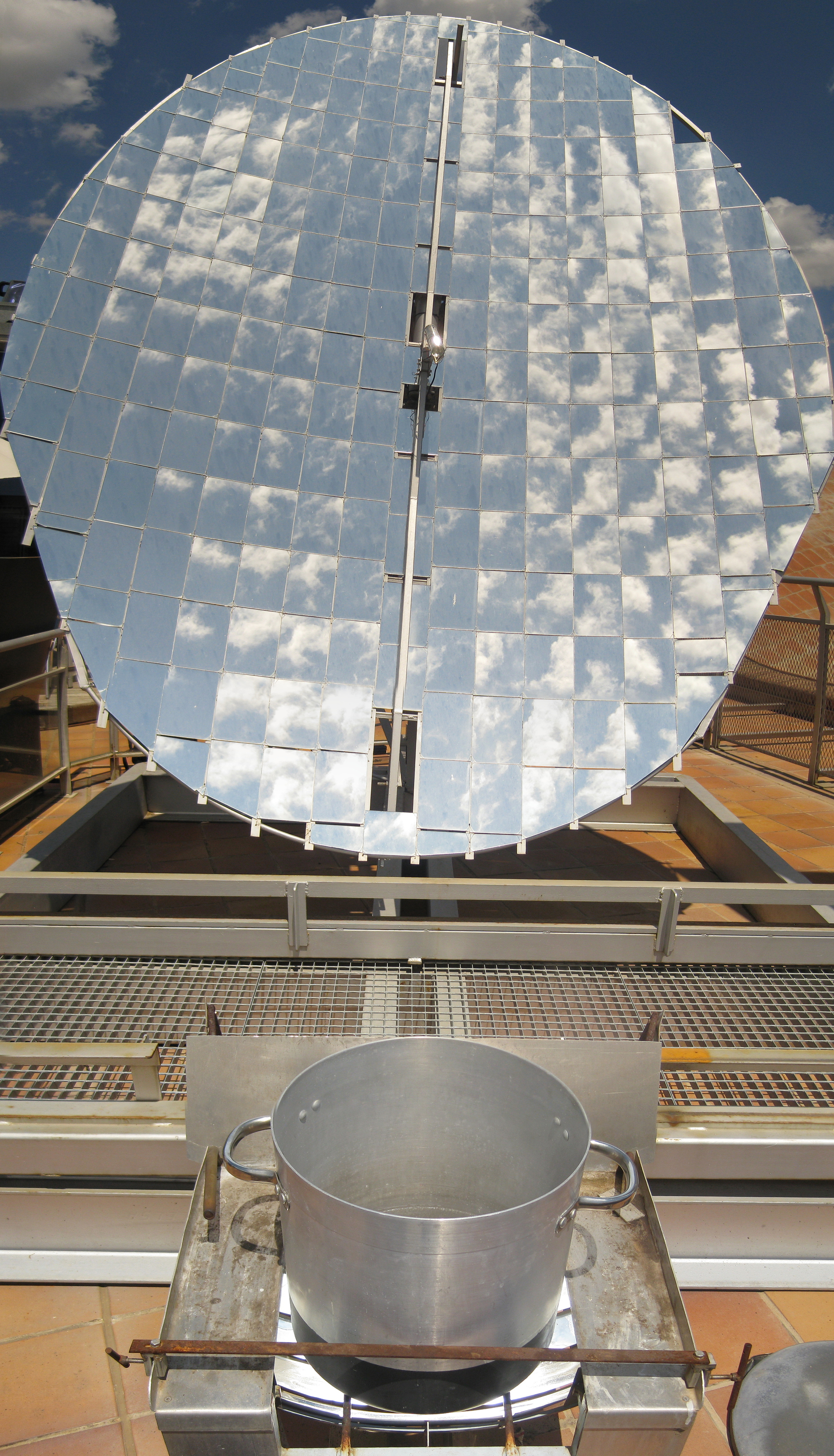 Scheffler sun oven: more information on